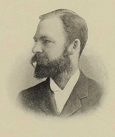 Photo of Dana Carleton Munro from the 1904 University of Wisconsin-Madison yearbook.